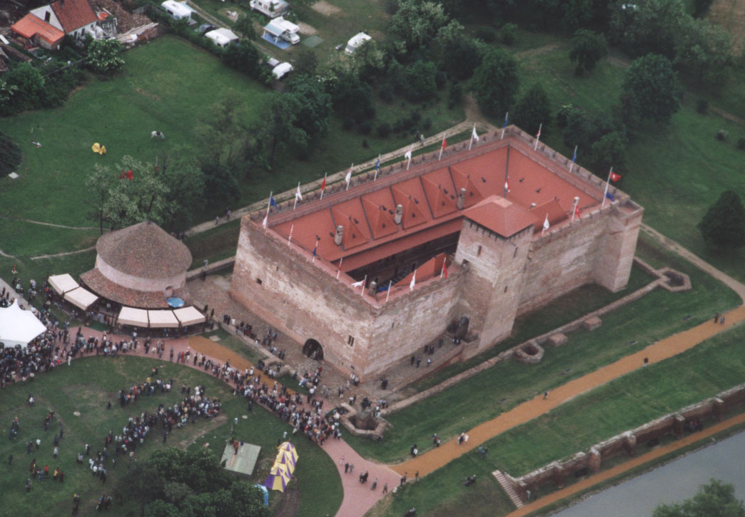 Castle - Gyula - Hungary - Europe